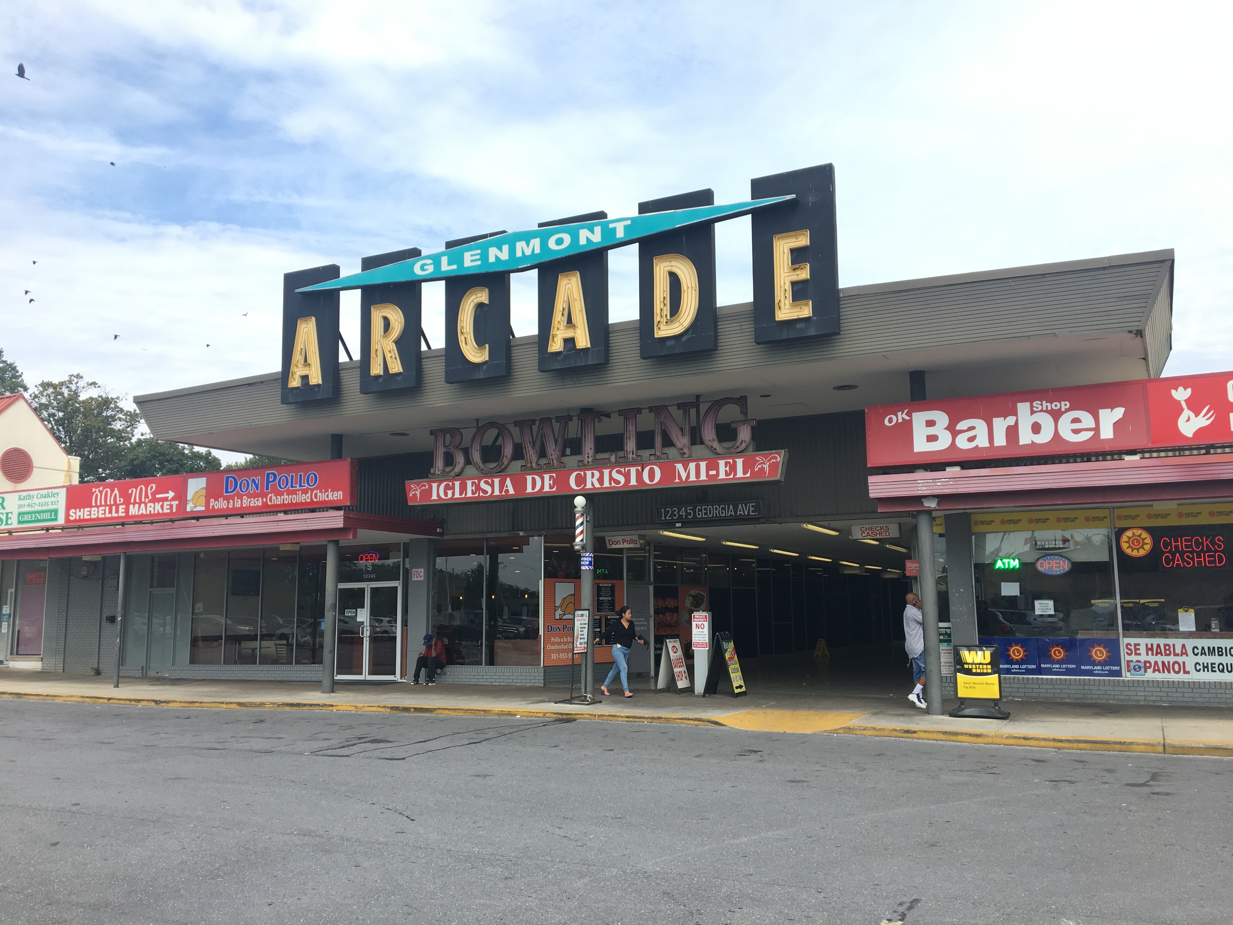 A photo of the entrance to "Glenmont Arcade," located in the Glenmont Shopping Center.